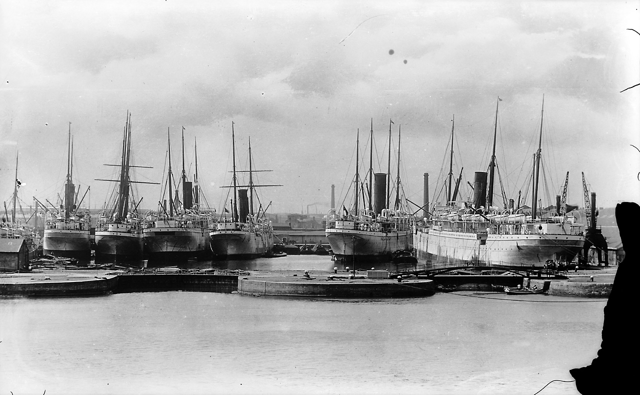 Reproduction ID: N48286 Maker: Unknown Date: 1902